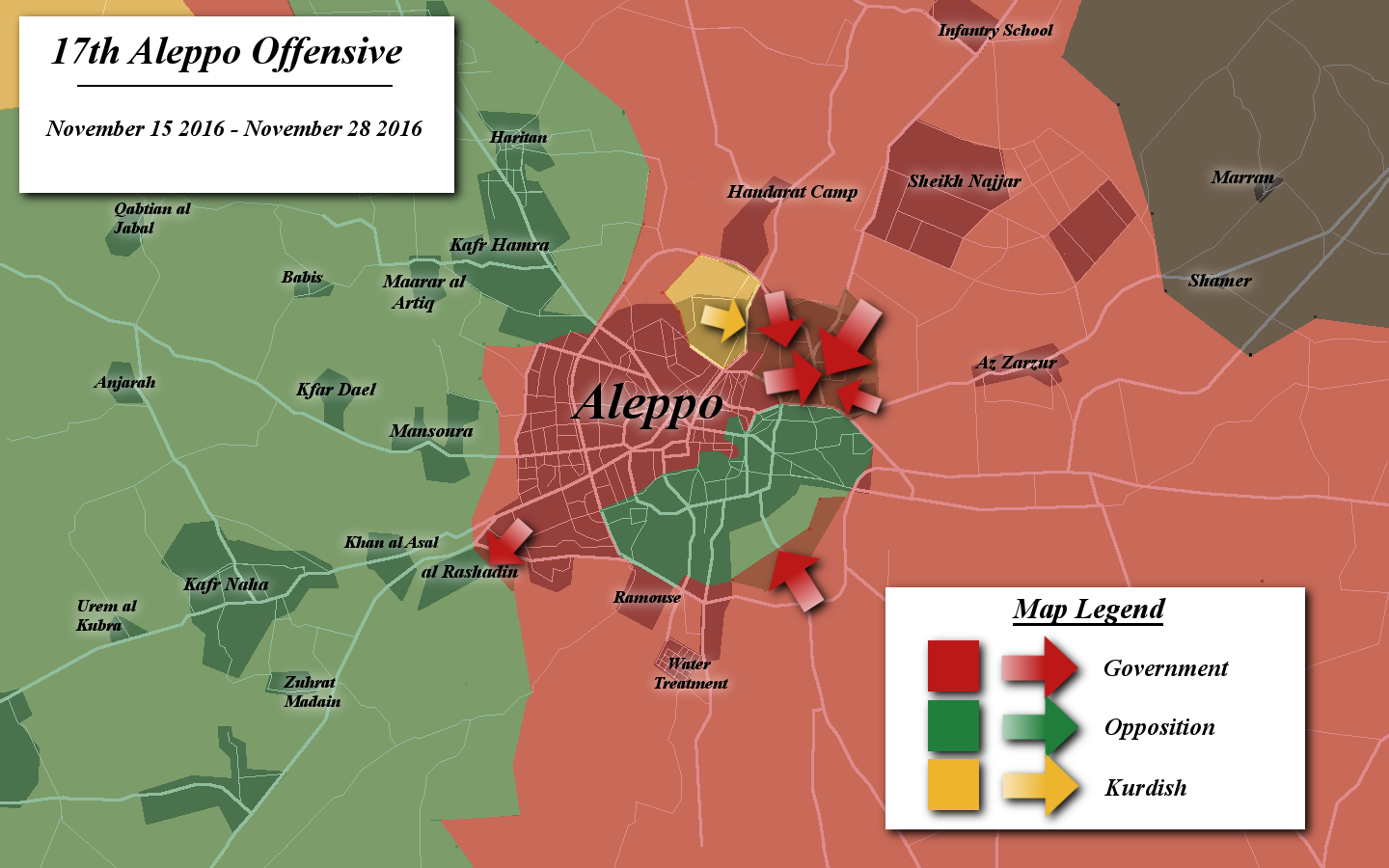 A simplified version of the first phase of the 17th Aleppo Offensive. Created in gimp 2.8. Influenced by many maps from creators: MrPenguin20, PetoLucem, Edmaps Syria, and so on.